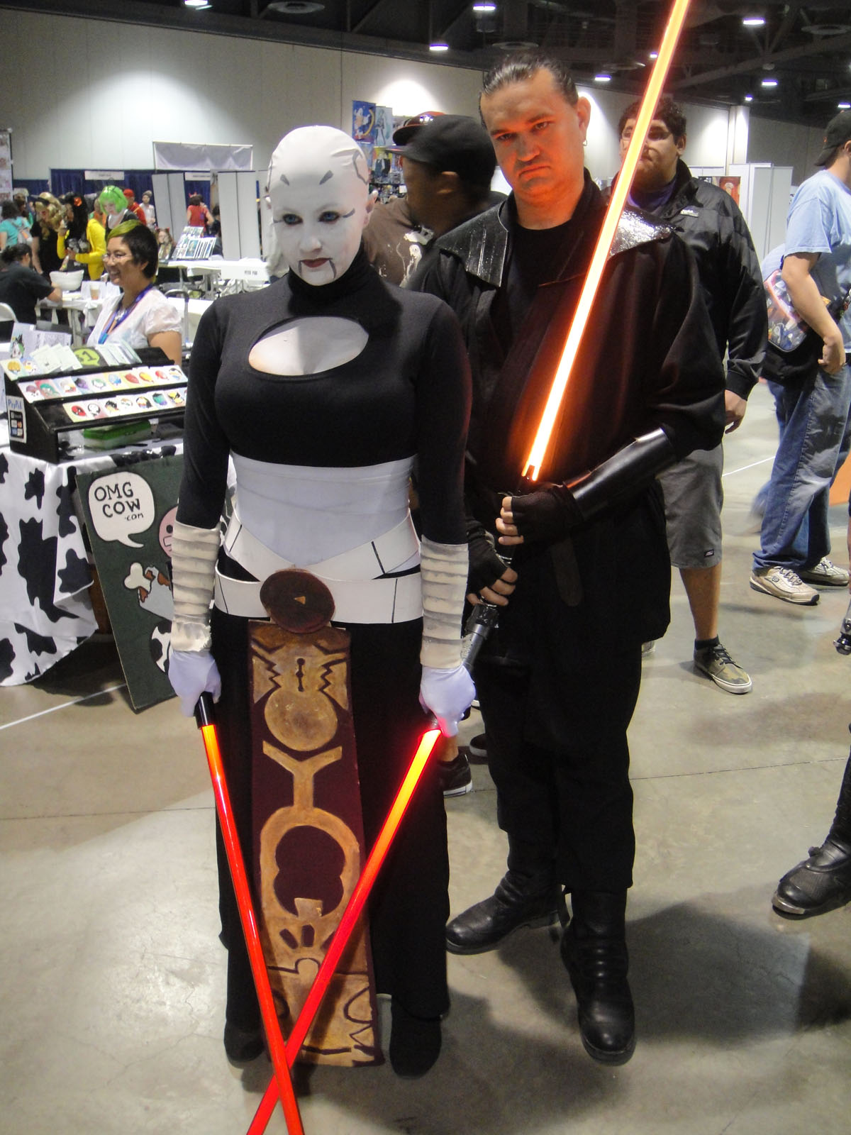 Cosplay of Asajj Ventress and a Dark Lord of the Sith at Long Beach Comic & Horror Con in 2011.